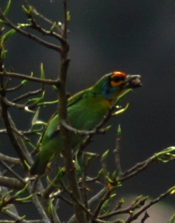 A Crimsonfronted Barbet photographed at Kandy in Sri Lanka